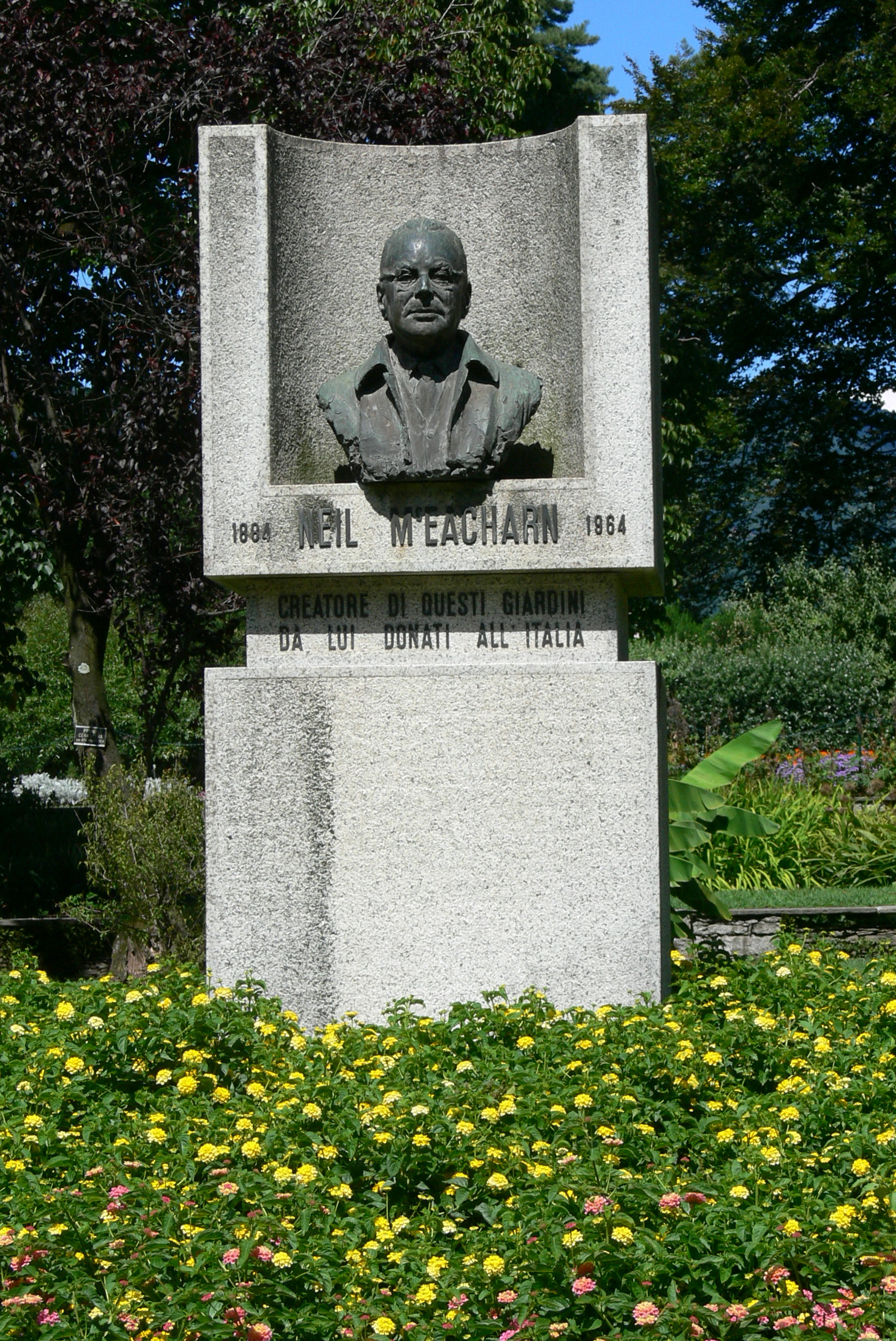 Villa Taranto ( Verbania-Pallanza ). Monument of Neil McEacharn ( 1884-1964 ), founder of the park.